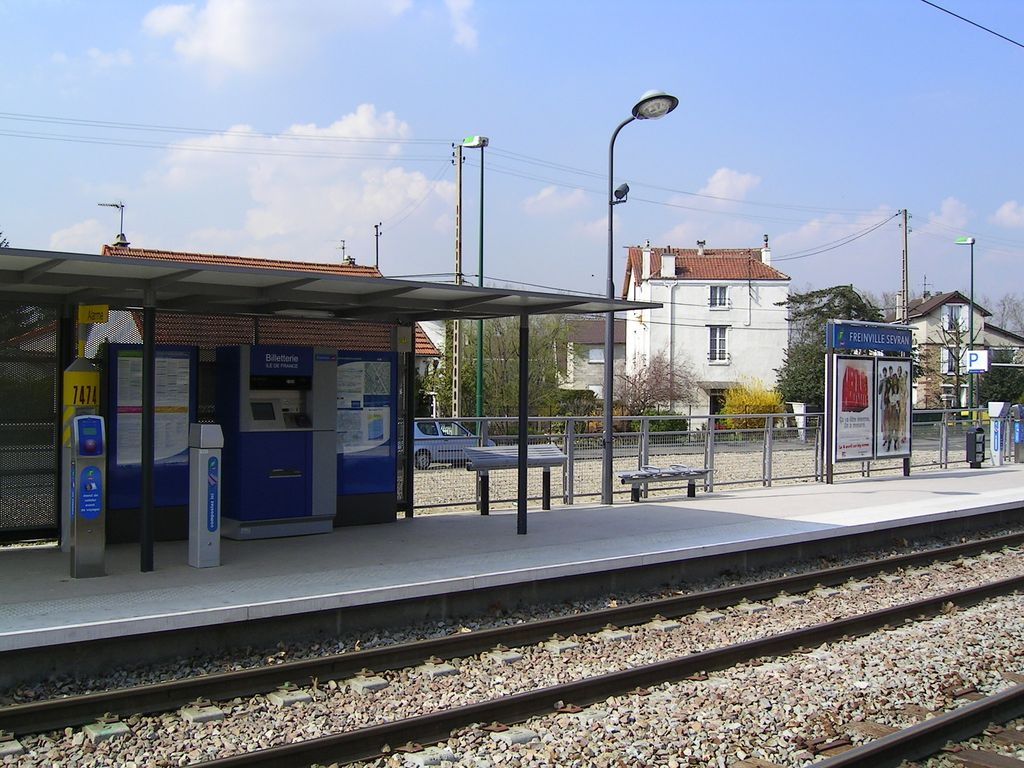 Gare de Freinville-tram-train T4 Photo personnelle (own work) de Marianna